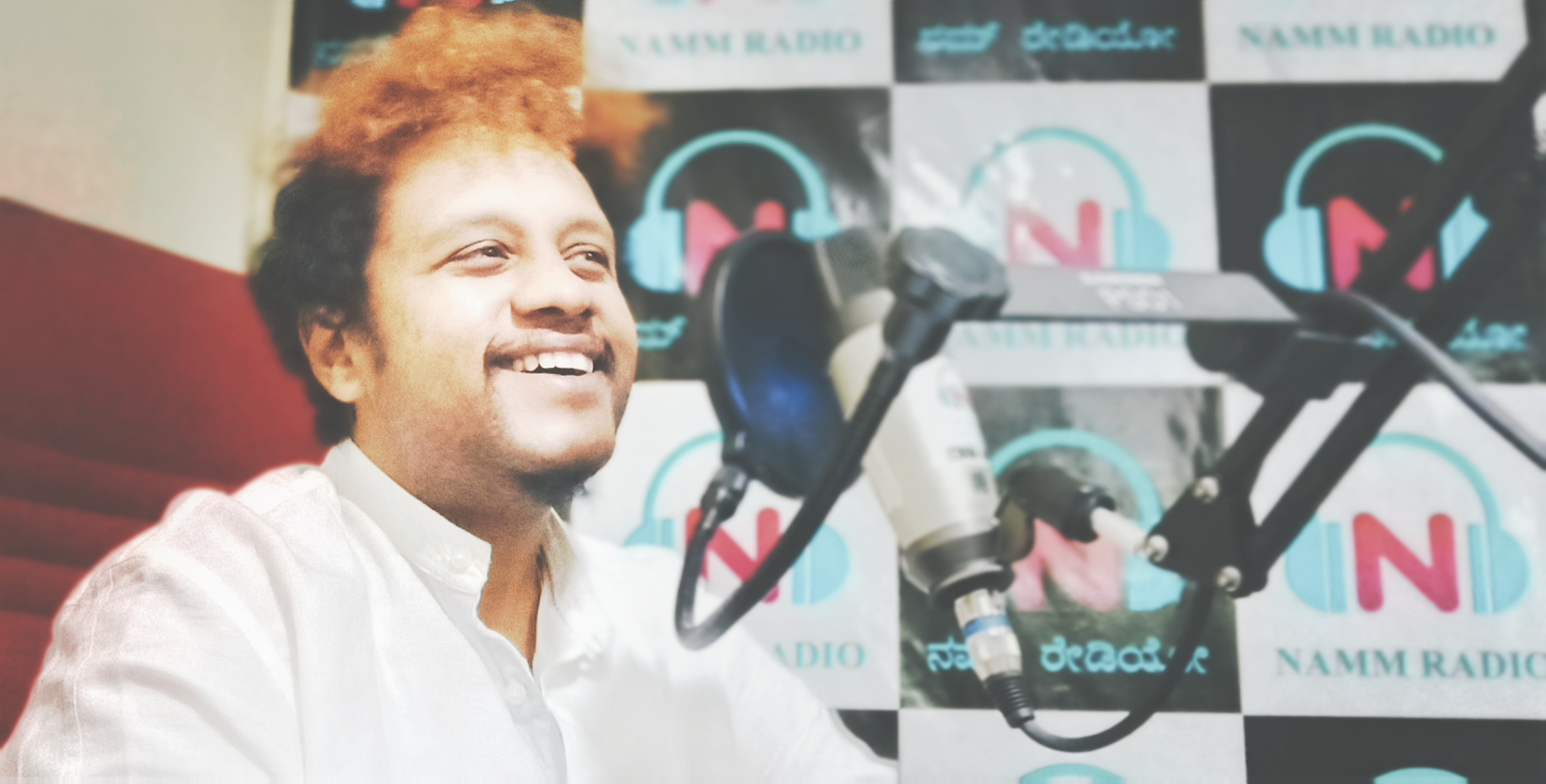 Pradyumna is a RJ at Nammradio, the first Kannada international digital radio station located in J P Nagar. Pradyumna hosts a show called Peacemaathu and this picture was clicked while he was recording one of his shows.